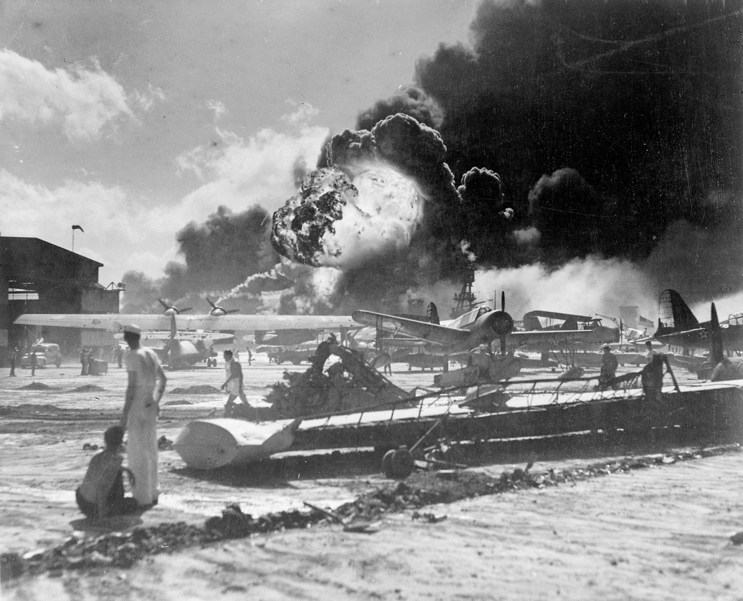 Sailors stand amid wrecked planes at the Ford Island seaplane base, watching as USS Shaw (DD-373) explodes in the center background, 7 December 1941. USS Nevada (BB-36) is also visible in the middle background, with her bow headed toward the left. Several planes are in the foreground, a consolidated PBY, Vought OS2Us and Curtiss SOCs. The wrecked wing in the foreground is from a PBY.